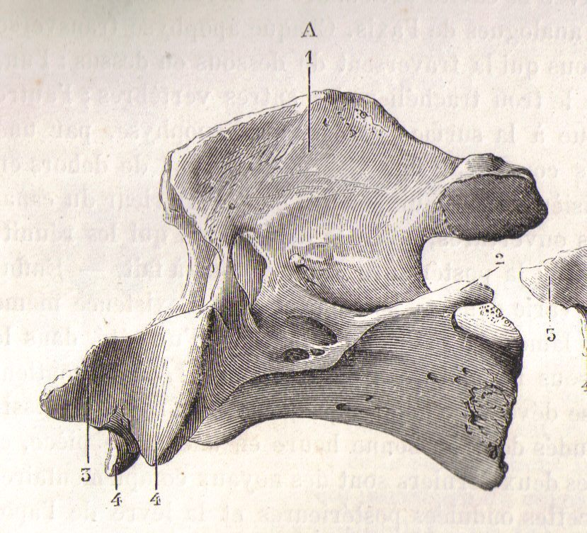 Lateral view of the axis bone of a horse (Equus caballus).